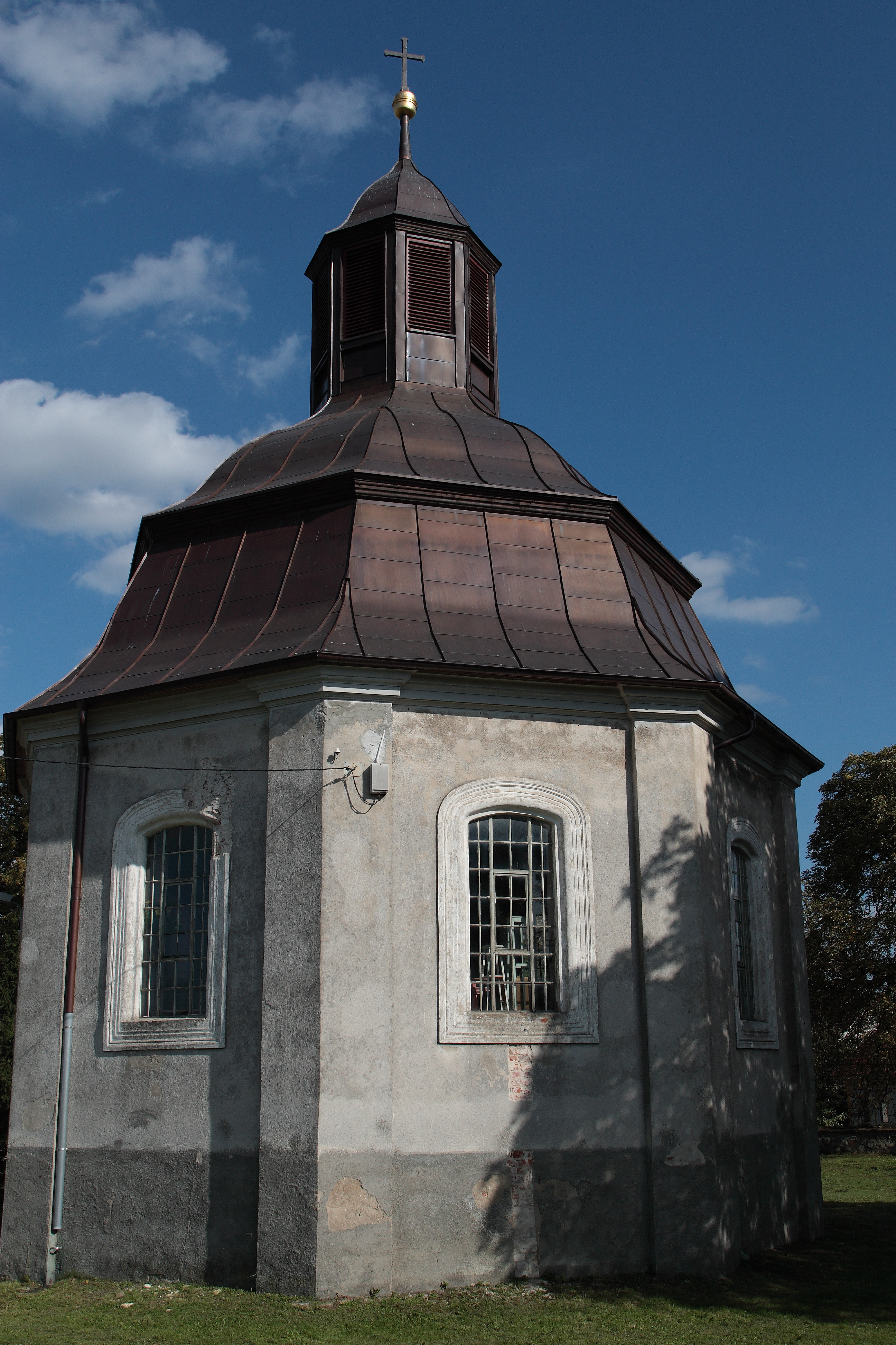 Żubrów - the church, 1813